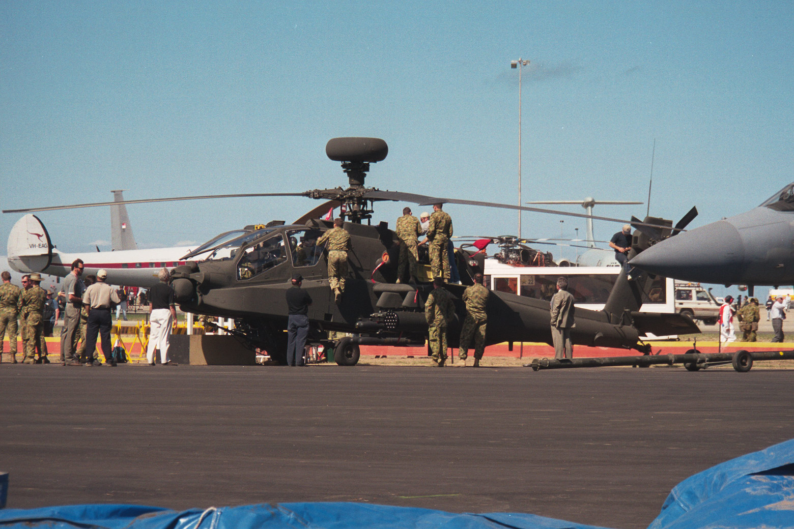 Boeing Apache attack helicopter at the 2001 Australian International Airshow.